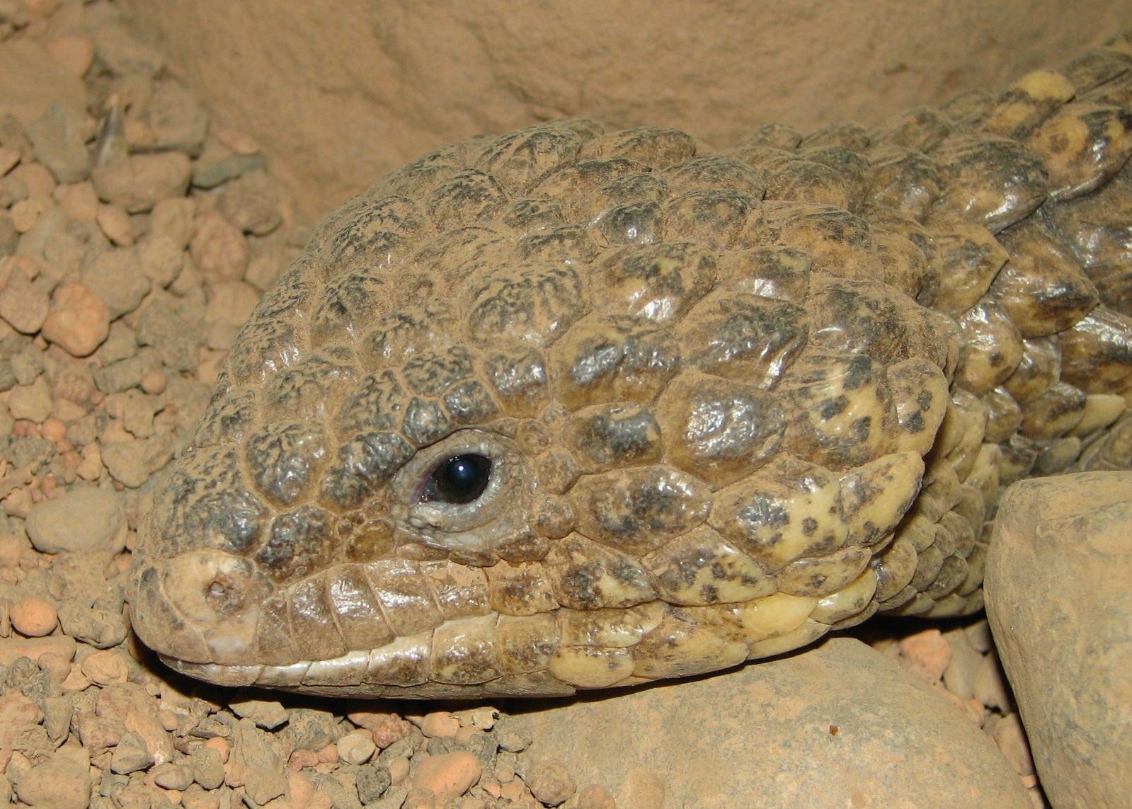 Shingleback skink at Louisville Zoo.